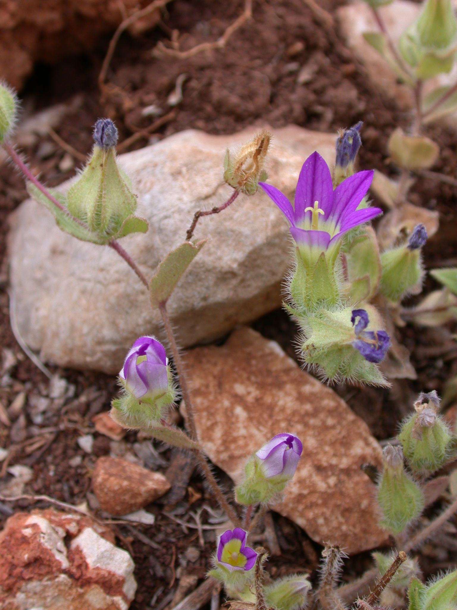 Campanula hierosolymitana Boiss., Mount Carmel, Israel, April 24 2009.